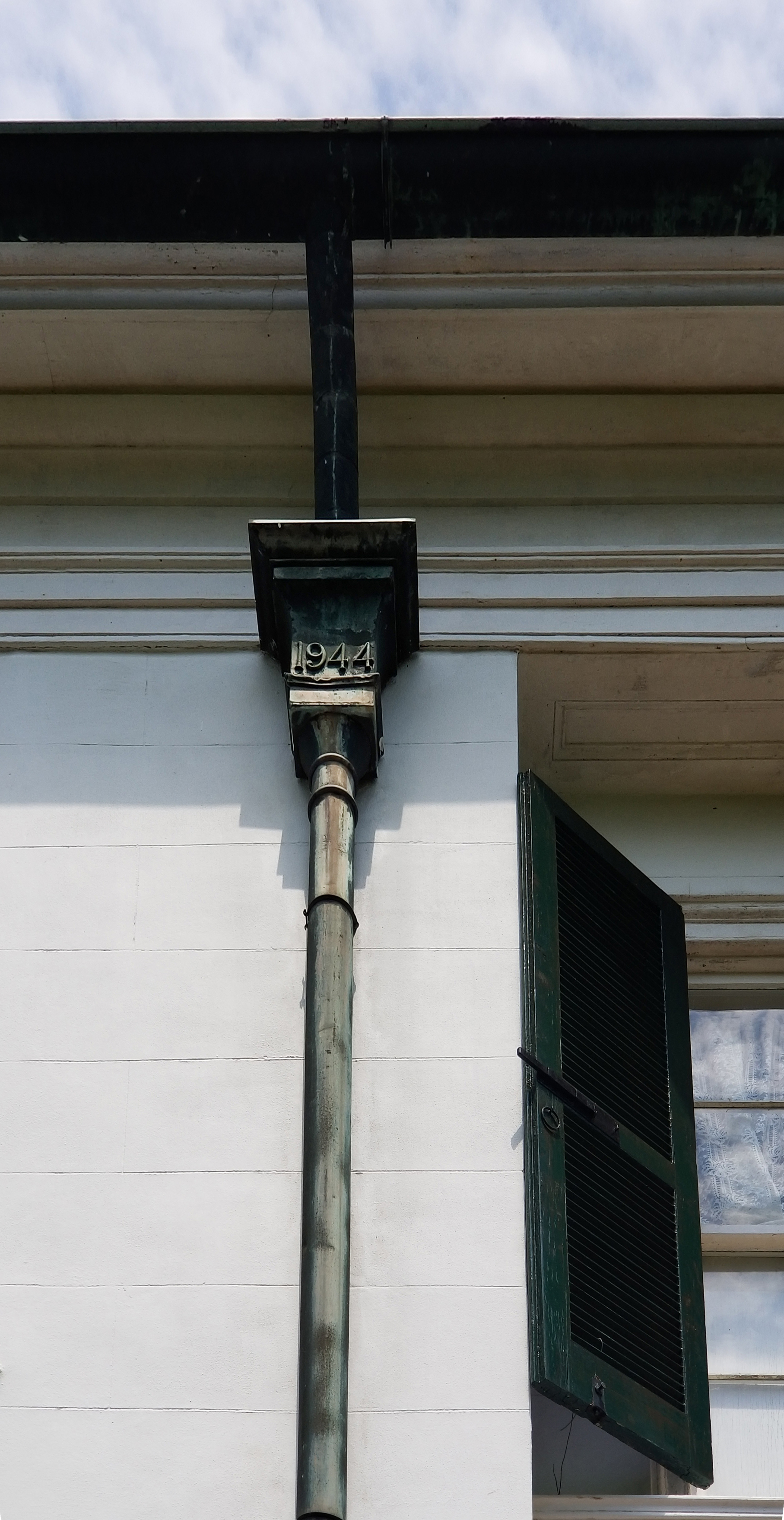 Cast iron leader head on the garden facing side of the mansion, depicting the date 1944. Evergreen Plantation, is in the National Register of Historic Places